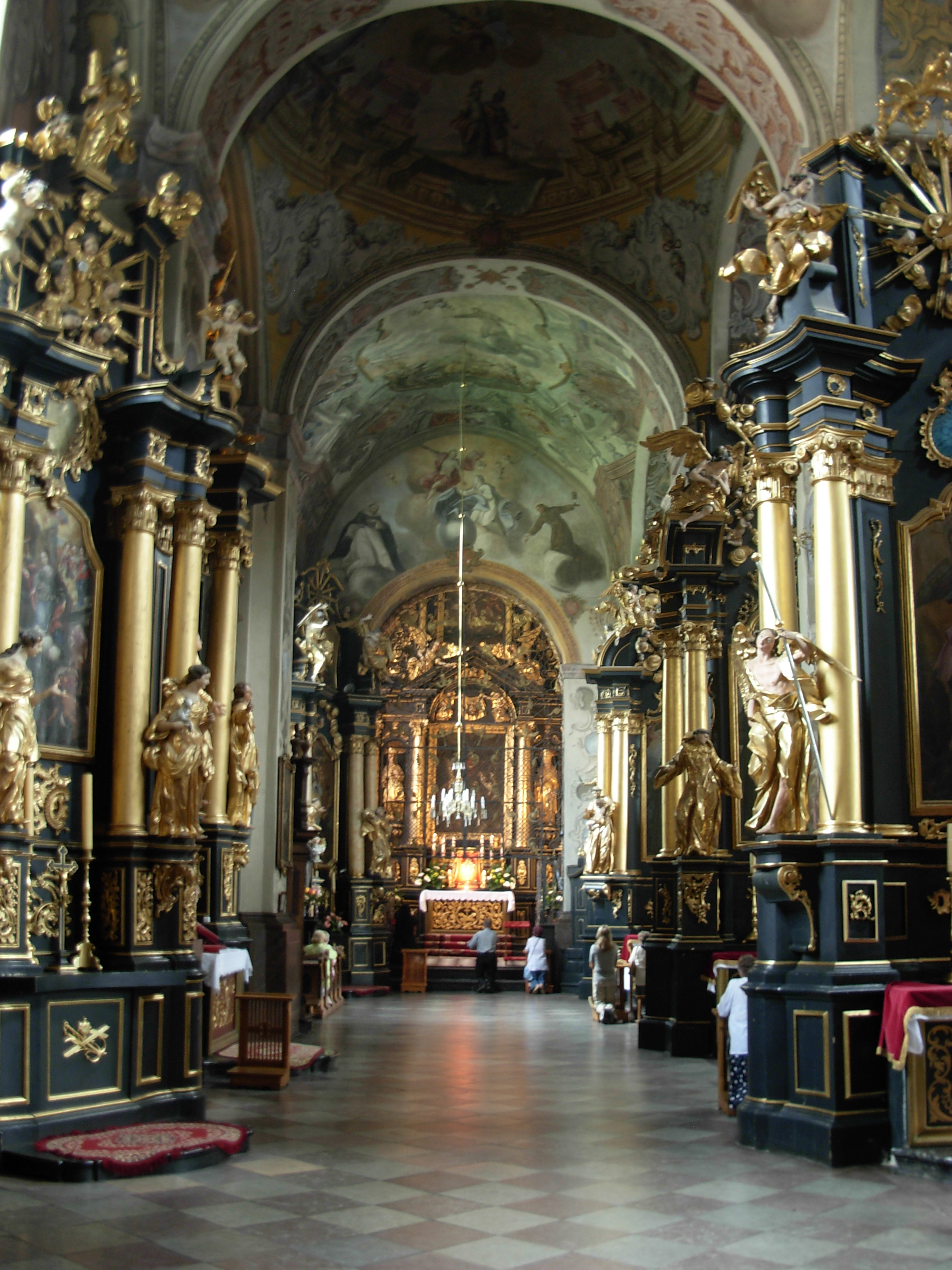 Bernardine Monastery in Leżajsk, Poland.